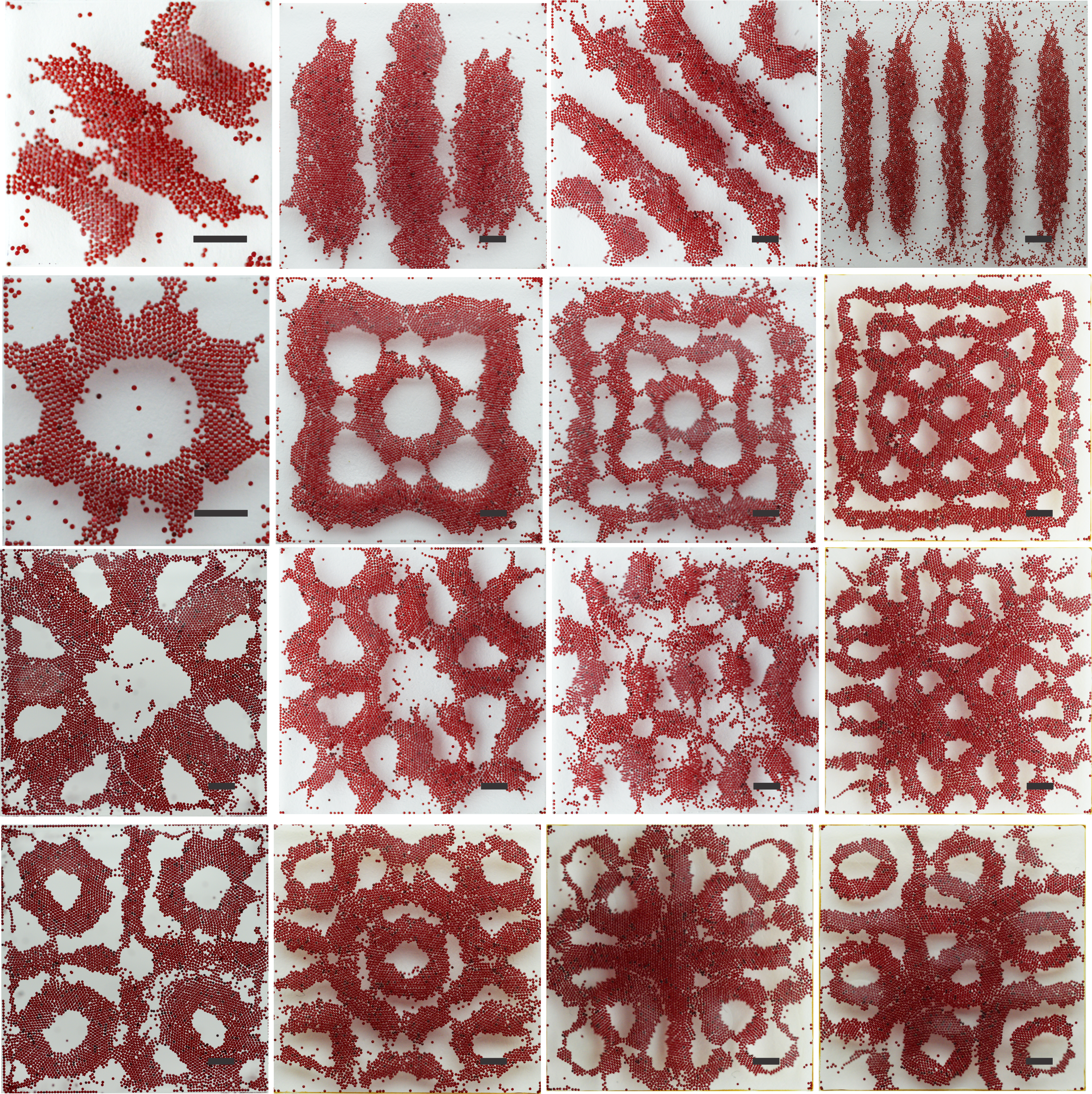 Assembly of 200-micrometer polystyrene beads on Faraday waves. Faraday waves are used as liquid-based template. The beads were assembled on the nodal regions of Faraday waves. Scale bar, 2 mm.